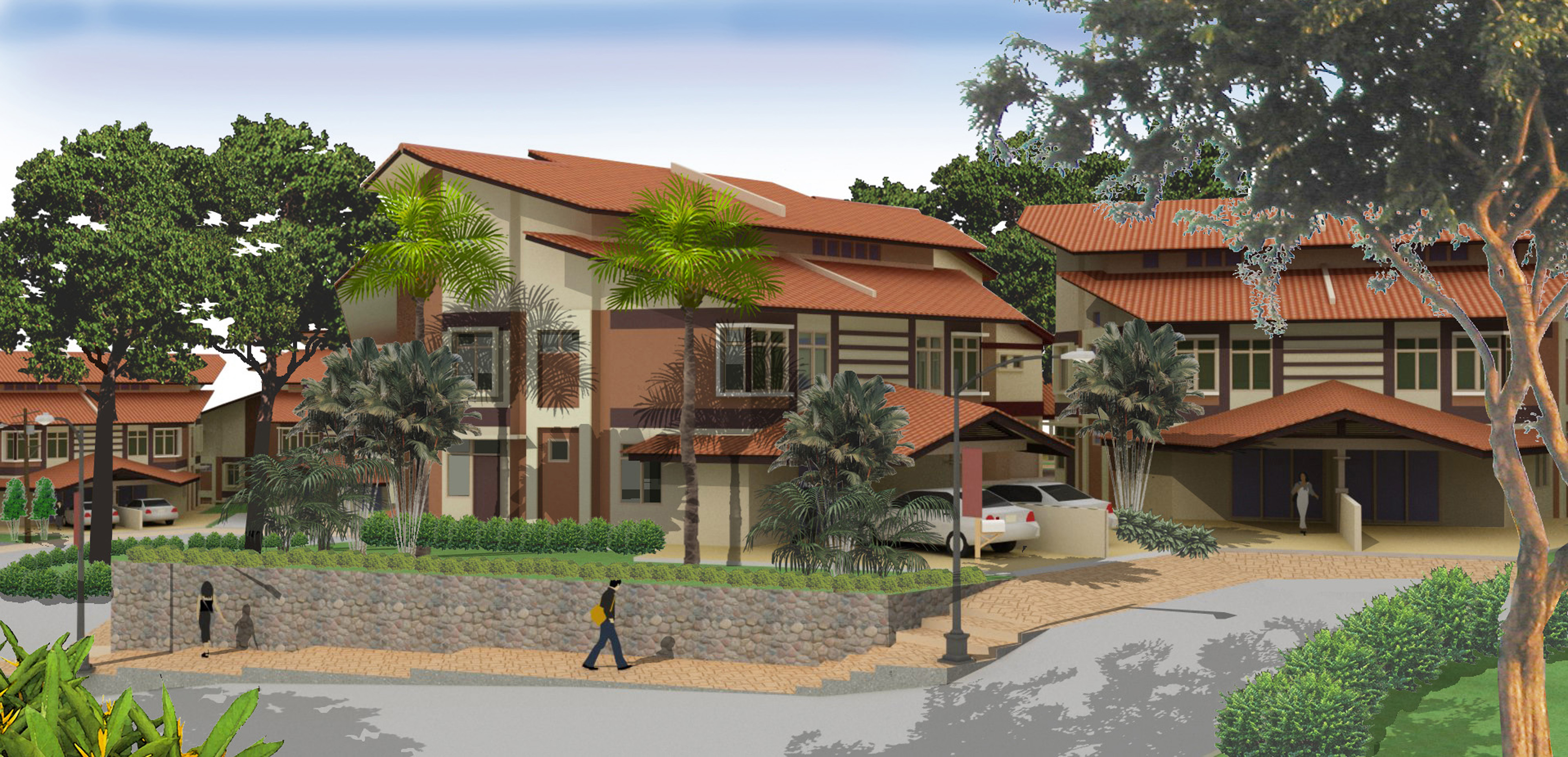 Perspective of quadruplex house at Nong Chik